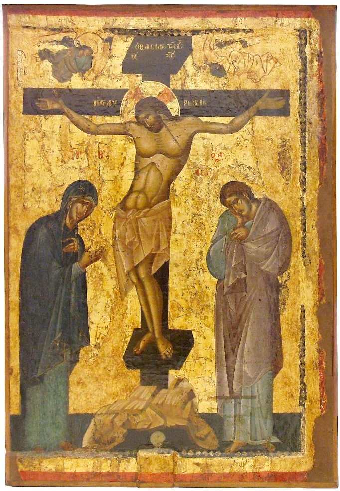 Crucifixion, II Half of XIII Century, St Mary Perivleptos Church, Ohrid Icon Gallery